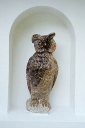 Owl located at the Dean's office.